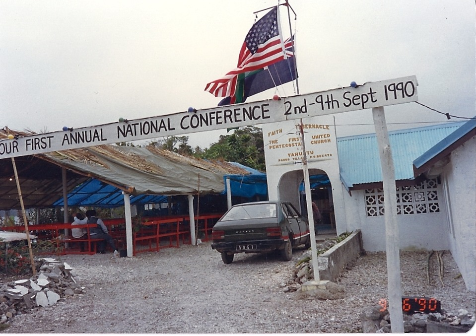 First United Pentecostal Church Int. of Vanuatu conference, 1990